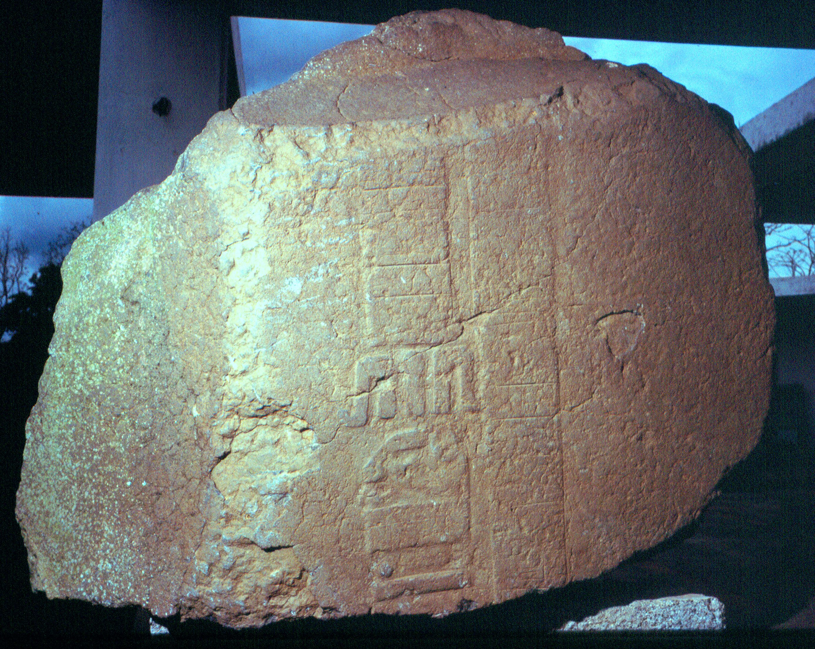 Trers Zapotes, Veracruz, Mexico: Stela C, upper part